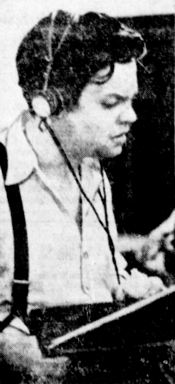 Photograph of Orson Welles, directing and performing in the seven-part radio series Les Misérables, broadcast July 23 – September 3, 1937, on the Mutual Broadcasting System. Caption reads as follows: Busy Radio Man Orson Welles, 24-year-old [sic—Welles was 22] actor, writer and producer, is one of radio's busy men. Here he is pictured while acting in and directing the presentation of Victor Hugo's "Les Miserables," heard on recent Friday nights over the WOR-Mutual network. Welles is shown wearing earphones which enable him to hear simultaneously with the radio audience the program as it is being broadcast.